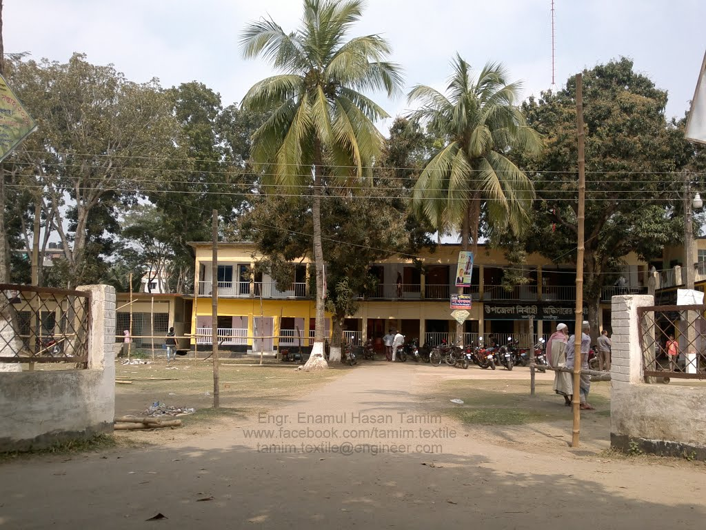 Kalkini Upazila Office